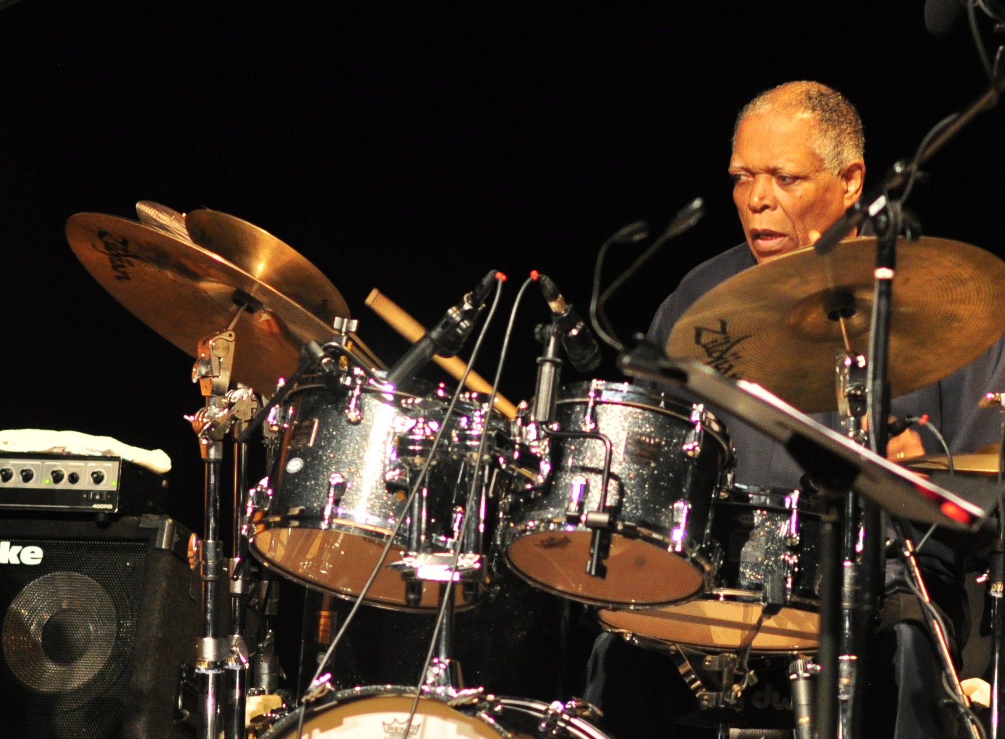 Jazz drummer Billy Hart playing with Lucian Ban's group Elevation, performing Ban's Songs from Afar, Plestcheeff Auditorium, Seattle Art Museum, Seattle, Washington, U.S.